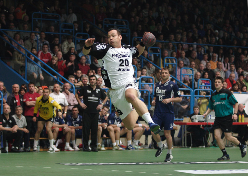 Christian Zeitz, on December 30th 2006 in Aschaffenburg (Germany), during the game TV Grosswallstadt - THW Kiel (25:30)